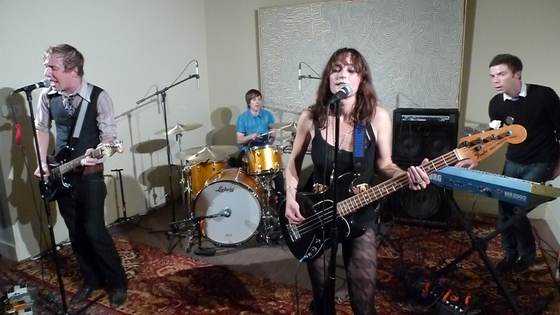 The Lovemakers in concert at Talking House studios in San Francisco, California. From Left to Right Scott Blonde (Guitar/vocals), Cary LaScala (Drums), Lisa Light (Bass/vocals), and Gareth Lloyd (Synthesizer) Original caption: We got to be the crowd in a Lovemakers video. Weird to be so conscious of how you dance but still fun!